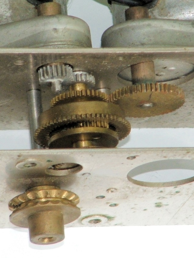 Drive mechanism from a chart recorder. One synchronous motor drives the annular gear of an epicyclic differential while the other drives the sun gear. The output shaft, driven by the plate holding the pivots for the planet gears turns at one of 3 different speeds depending on the combination of motors currently running. The mechanism was made by Cramer Controls Corp. no earlier than 1961. The outside diameter of the drum supporting the annular gear of the differential is 0.95 inches (54 mm).